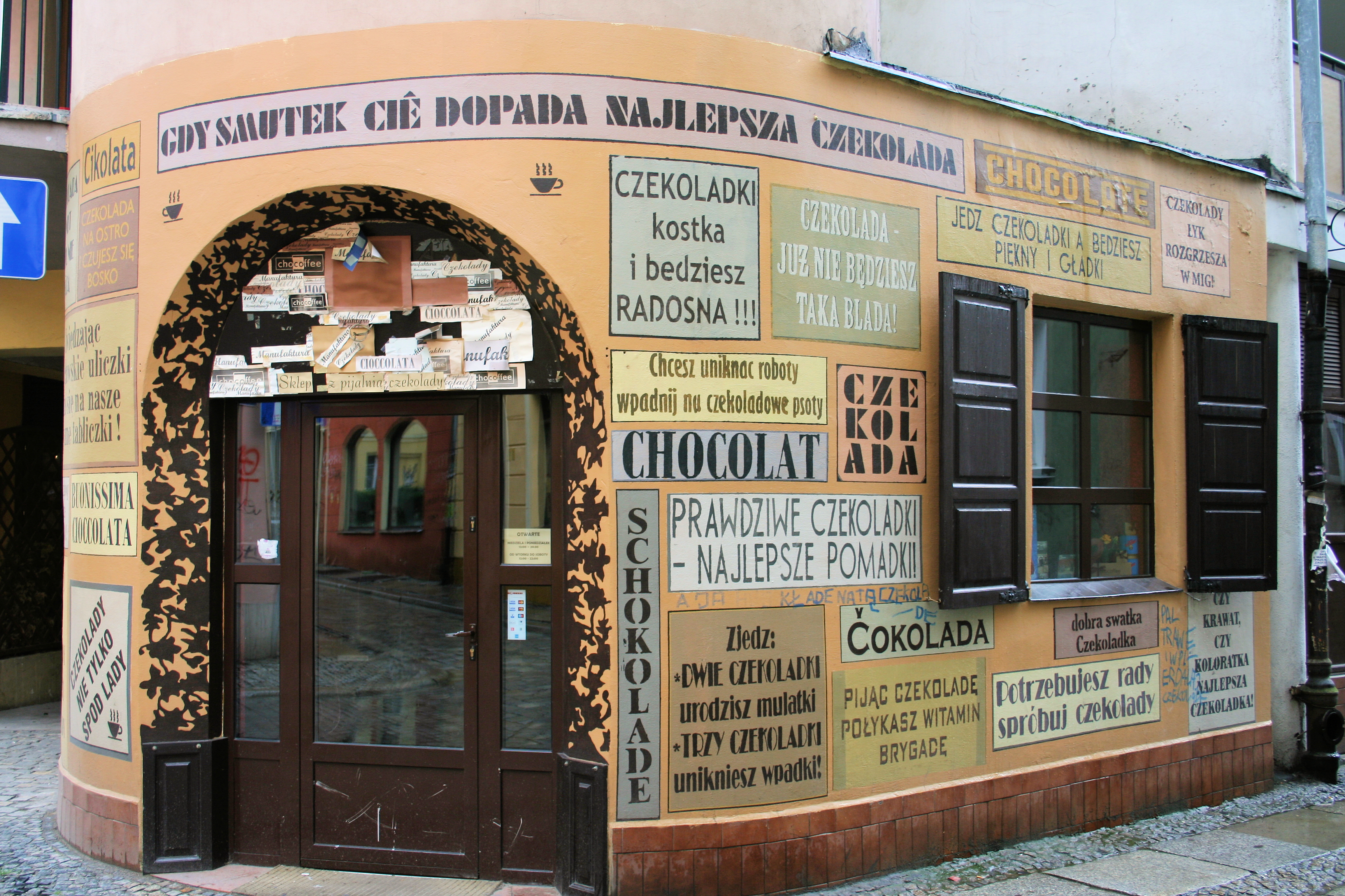 Chocolate shop in Wrocław, Poland